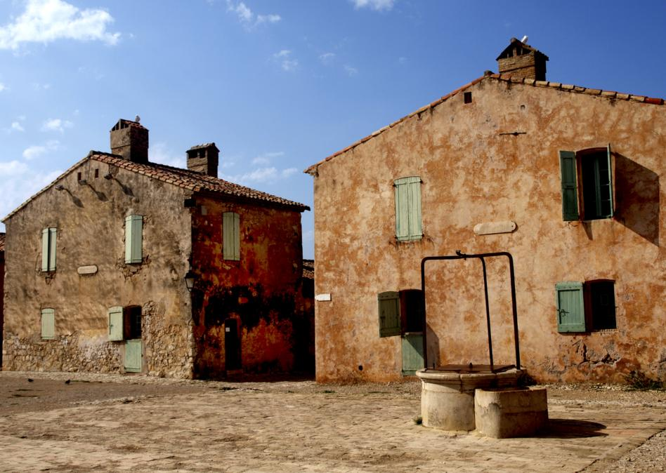 The Fort Royal (Lérins Islands)